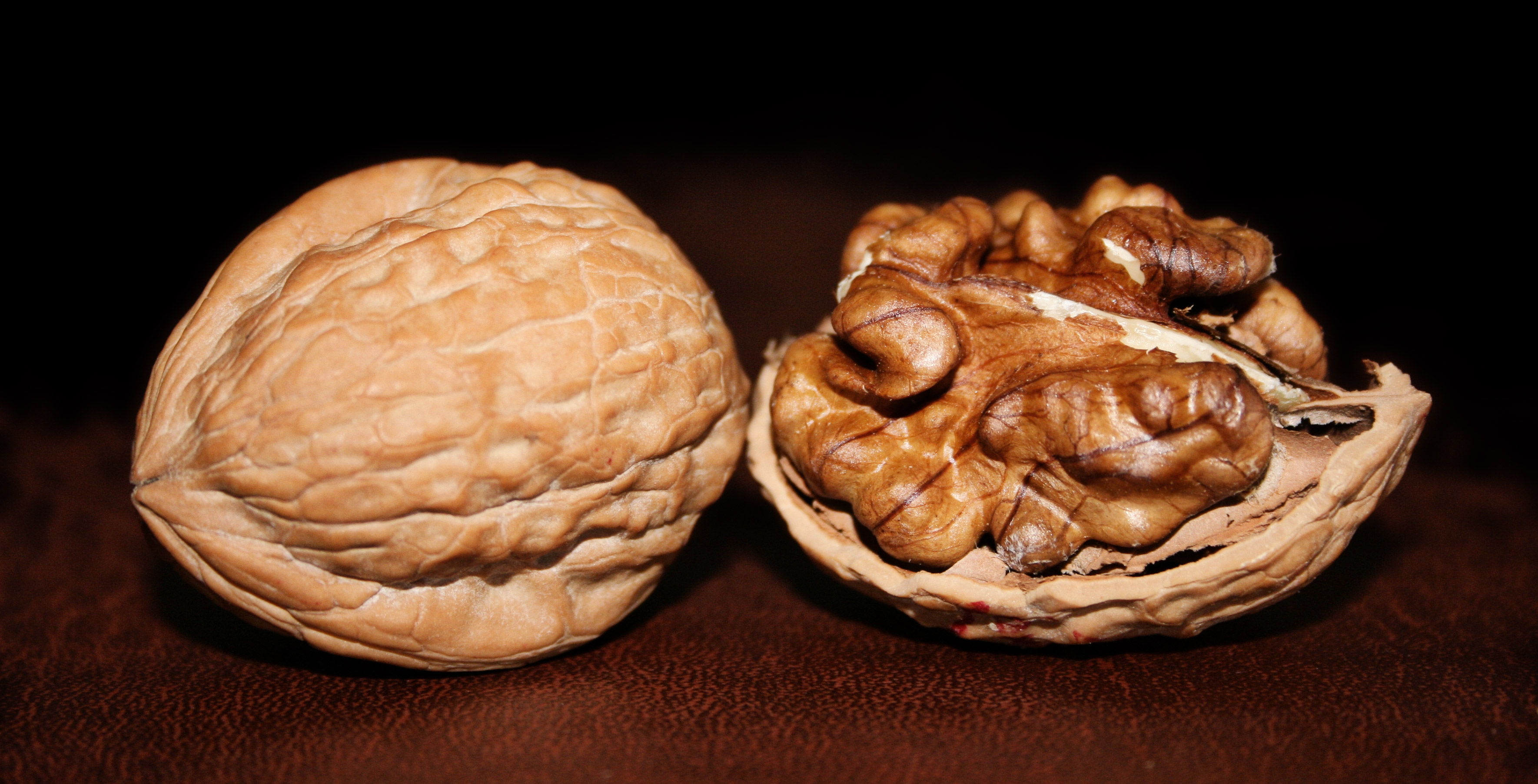 Taken and uploaded by AndonicO. Edited by Fir0002